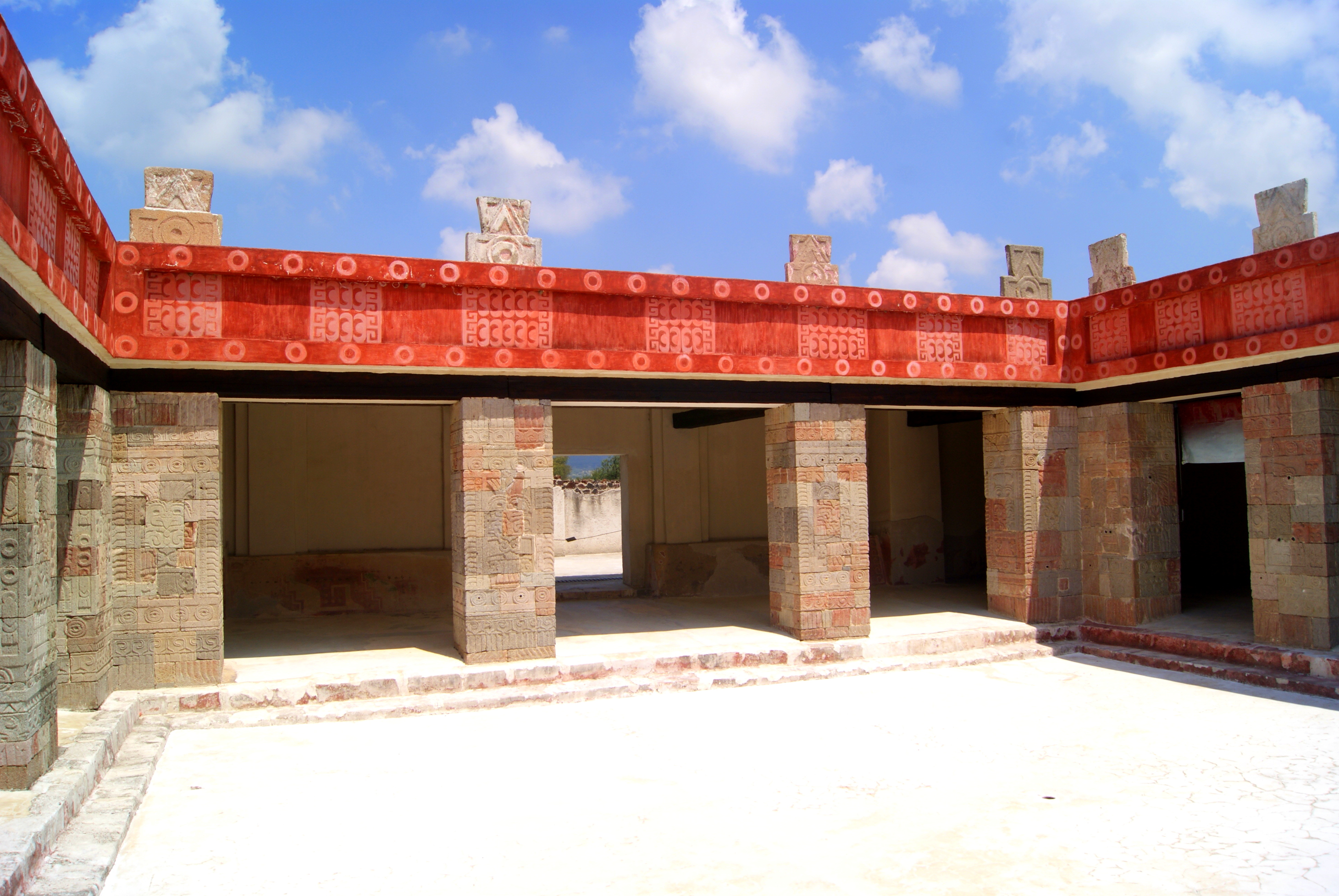 Wiki Loves Pyramids, Wikimania15